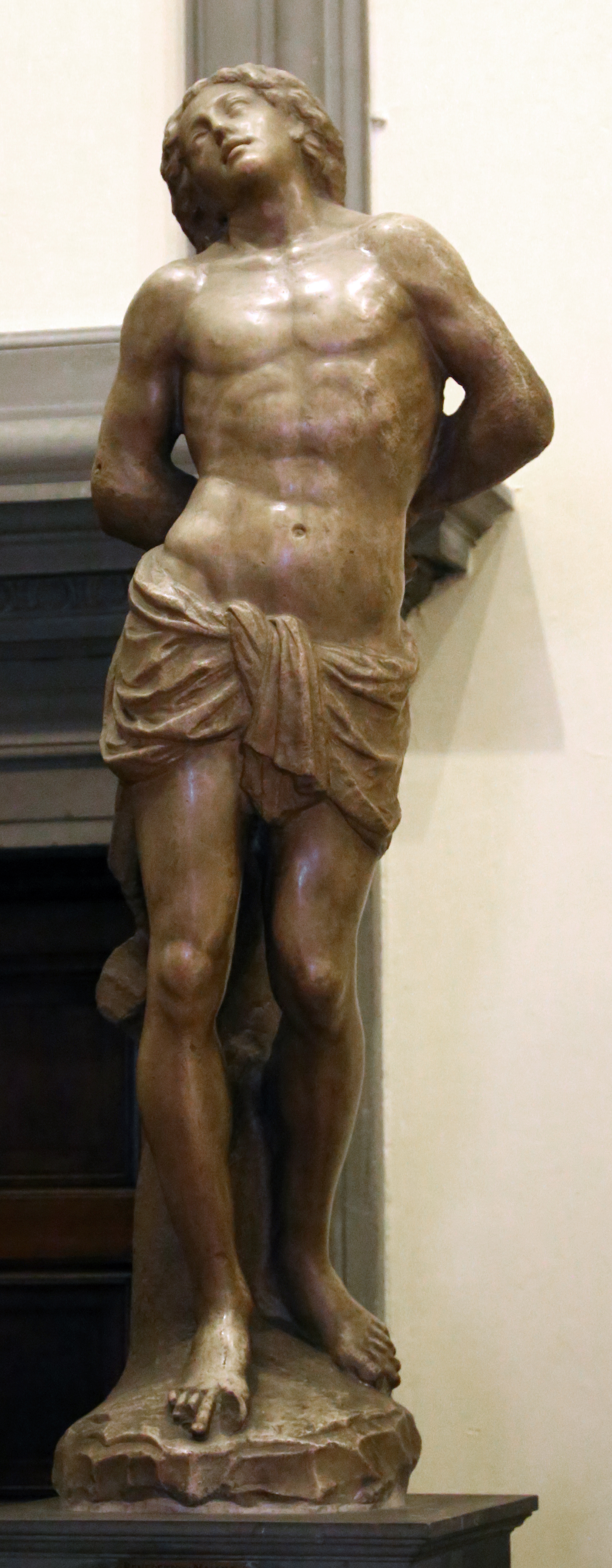 Chiesa della Misericordia (Firenze) - Interior